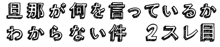 I Can't Understand What My Husband Is Saying logo